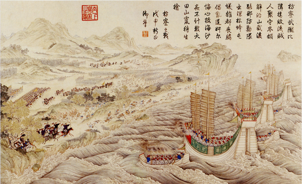 Battle of Fangliao, a scene of the Taiwanese campaign 1787-1788